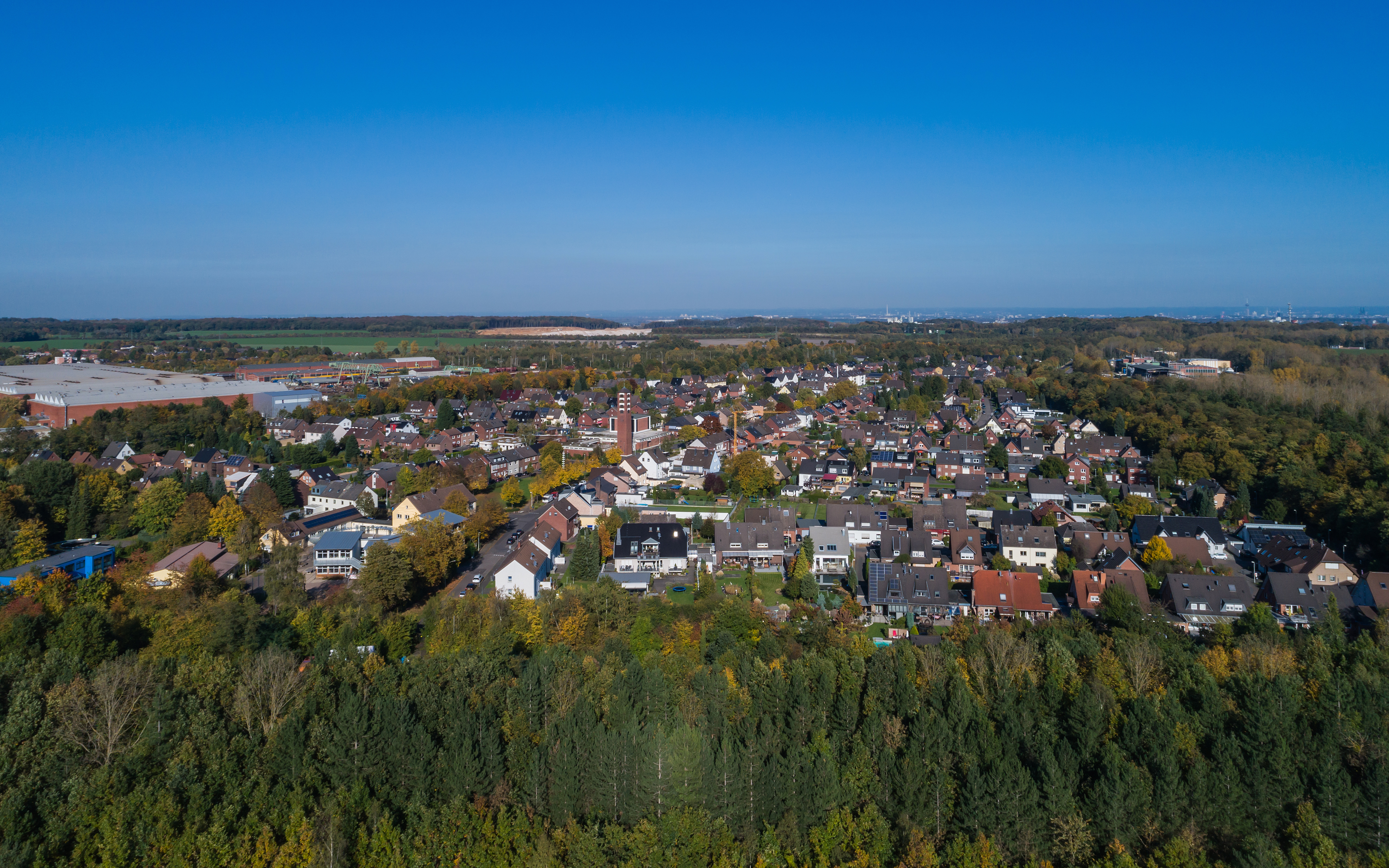 Aerial photo of Frechen-Grefrath, Rhein-Erft-Kreis (Germany)